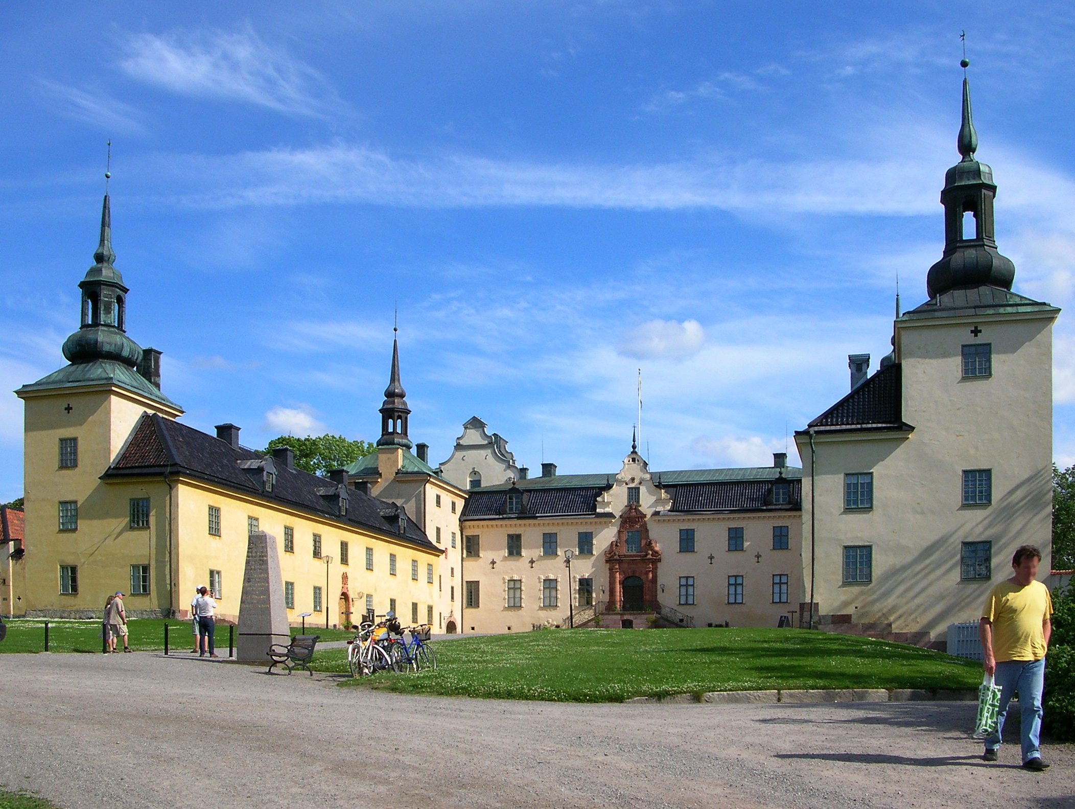 Tyresö slott / Tyresö castle, Tyresö kommun The photo was taken the 24th of June 2005 by Håkan Svensson (Xauxa).